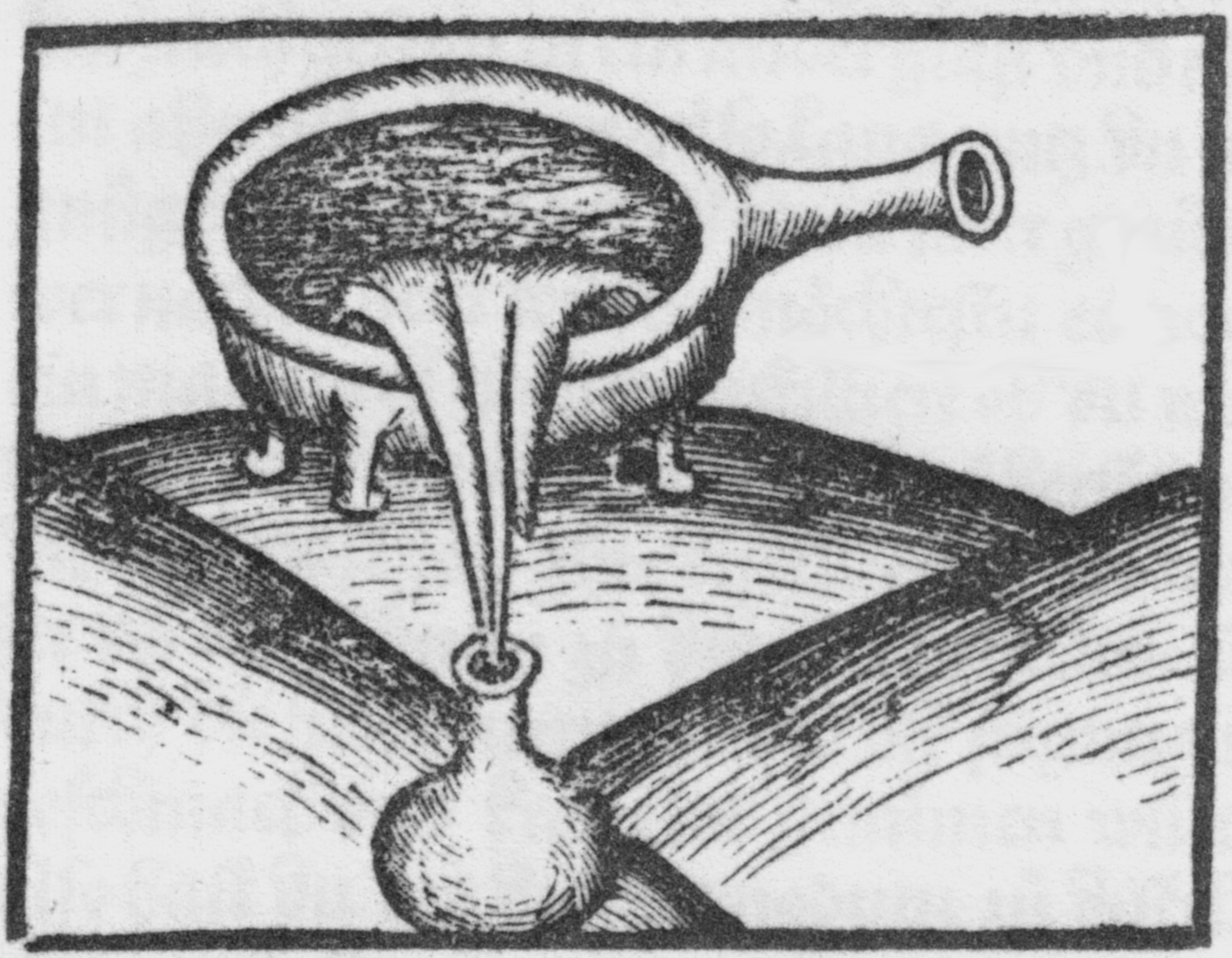 Picture showing the method of "Destillatio per filtrum".